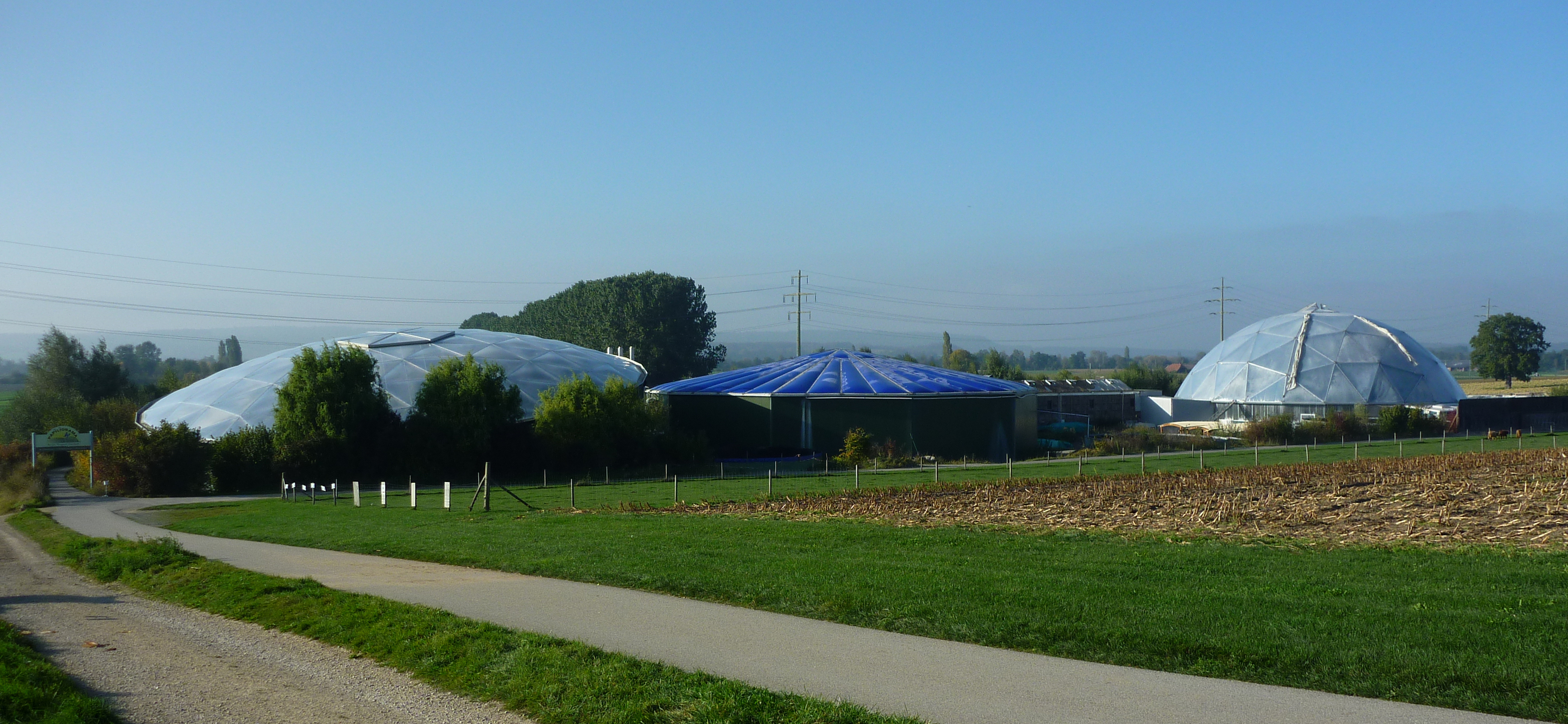 Outside view of the Papiliorama in Kerzers, FR, Switzerland